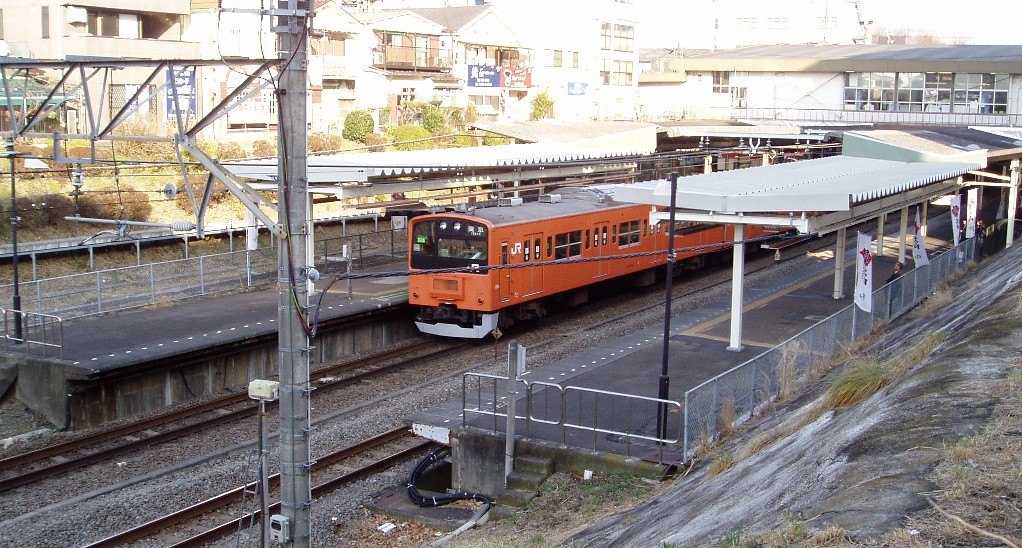 Chuo Line platforms 1 and 2 of Nishi-Kokubunji Station